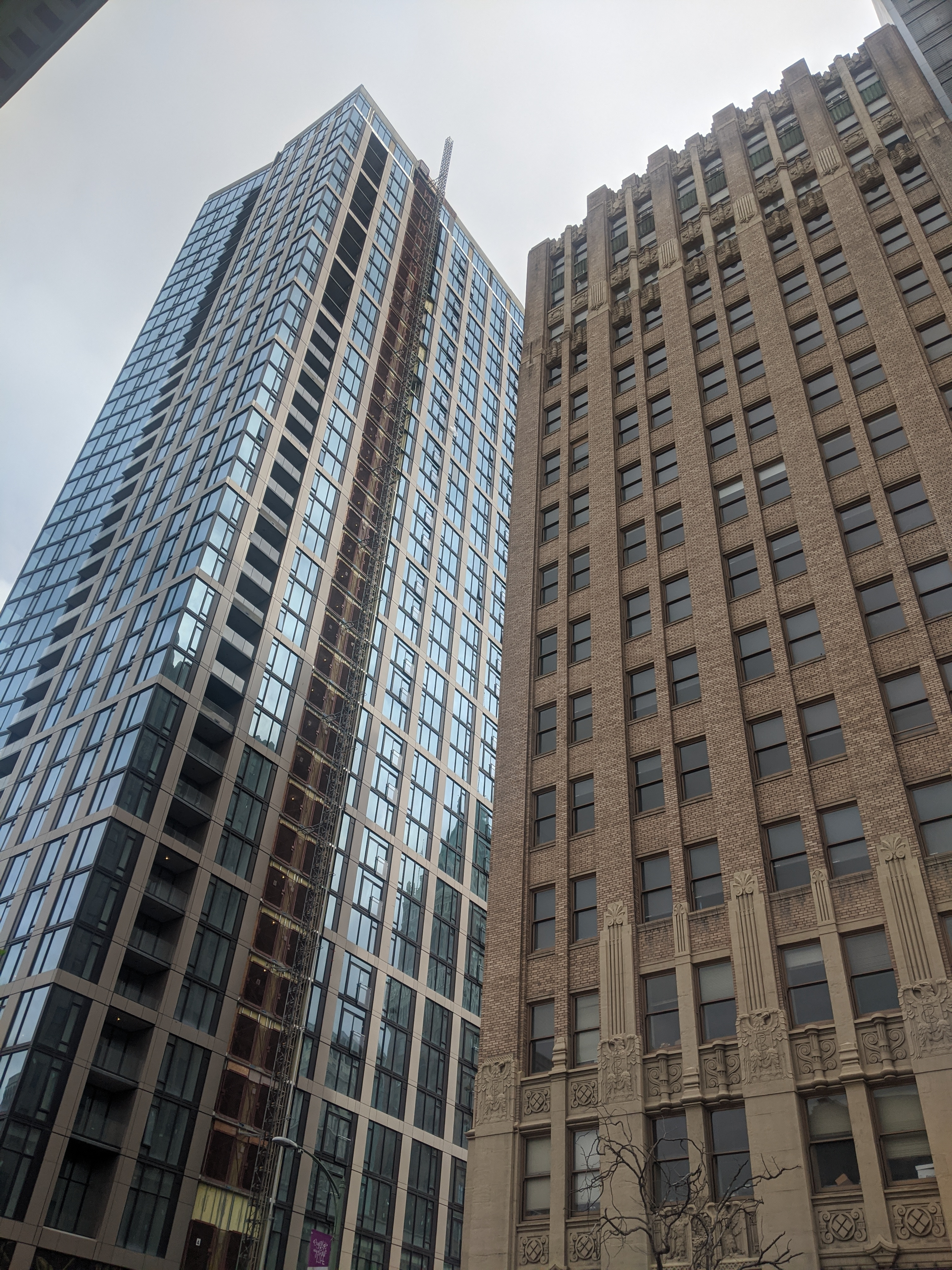 tech boom